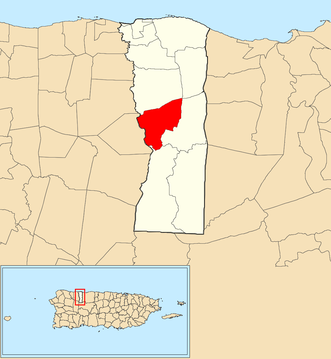 Buena Vista, Hatillo, Puerto Rico locator map